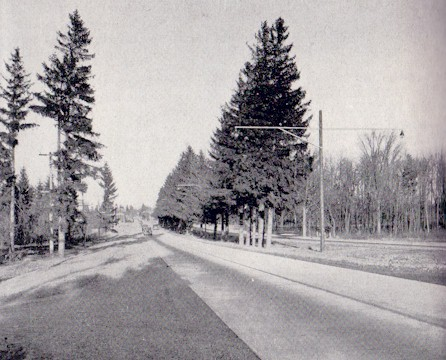 A photo of Middle Road, looking east towards Toronto from Clarkson Sideroad, showcasing the divided "dual highway" concept with sodium lighting.